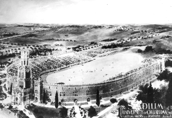 An early drawing of the Oklahoma Memorial Stadium. The stadium was opened in 1925, thus it is a safe assumption that an early drawing of the stadium, one that was scrapped for another, simpler, idea, would predate 1923.